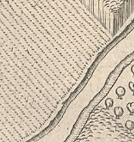 Map of Cologne by Arnold Mercator (1570)